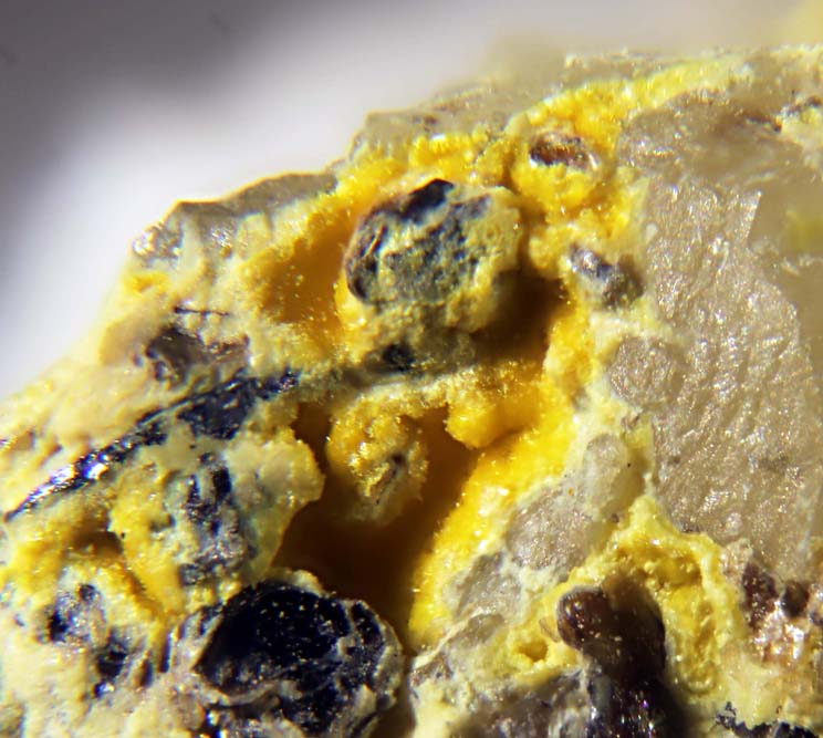 Colorful yellow crystals of the rare copper-iron sulphate mineral poitevinite in small pieces of matrix. From: Cumobabi, La Verde District, Sonora, Mexico.